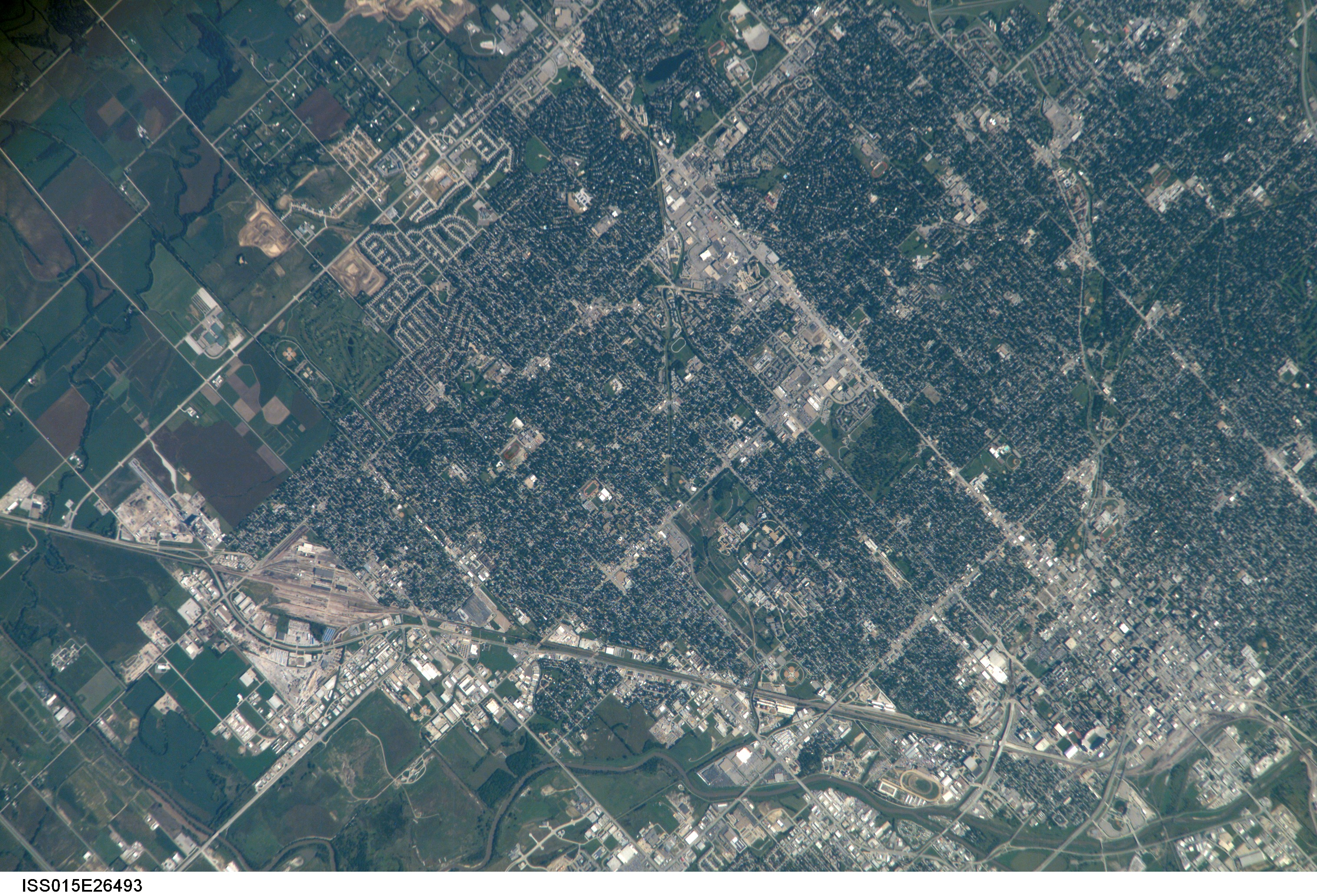 Astonaut Photography of Lincoln Nebraska taken from the International Space Station (ISS)